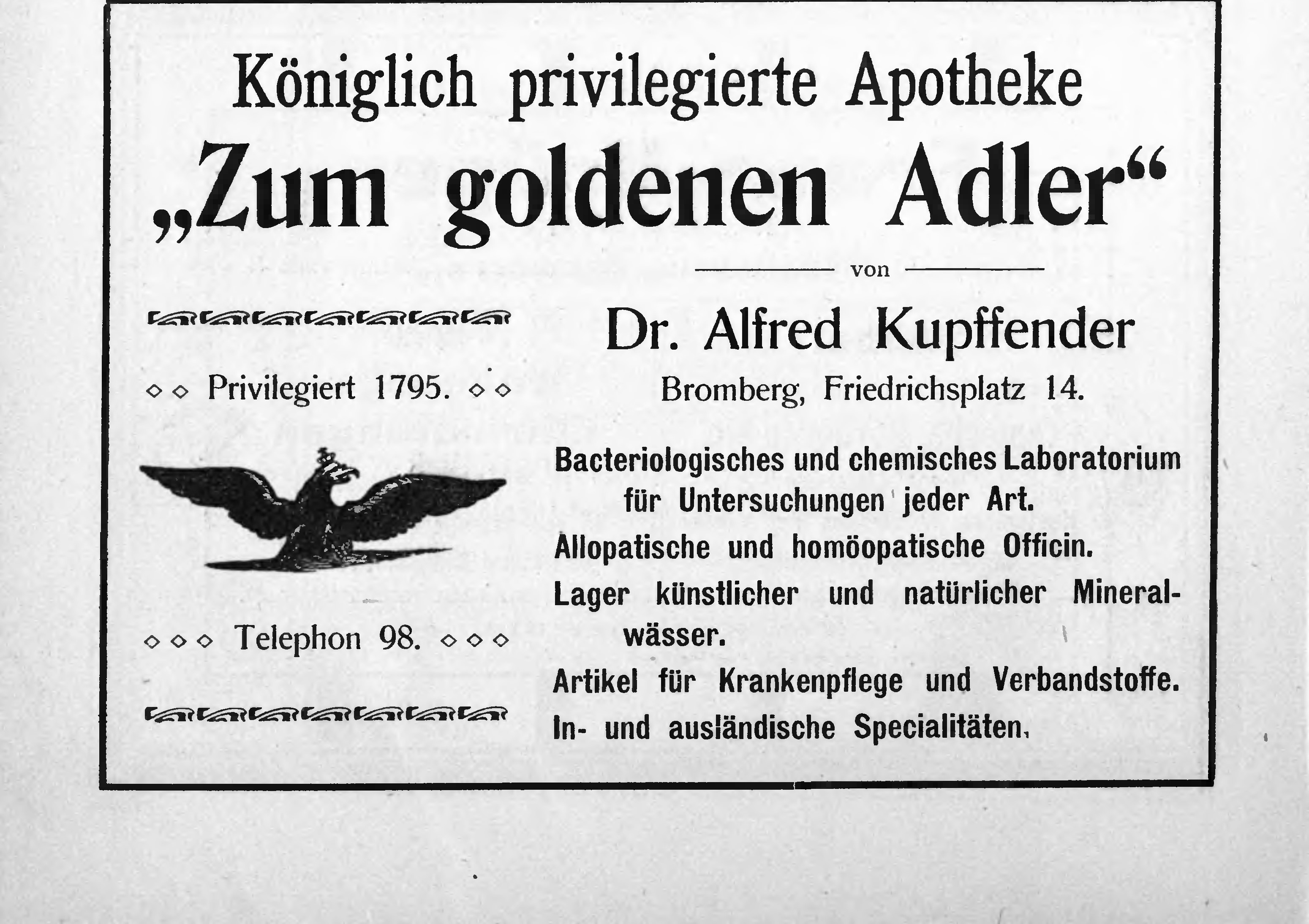 Advertising pharmacy Stary rynek - 1903